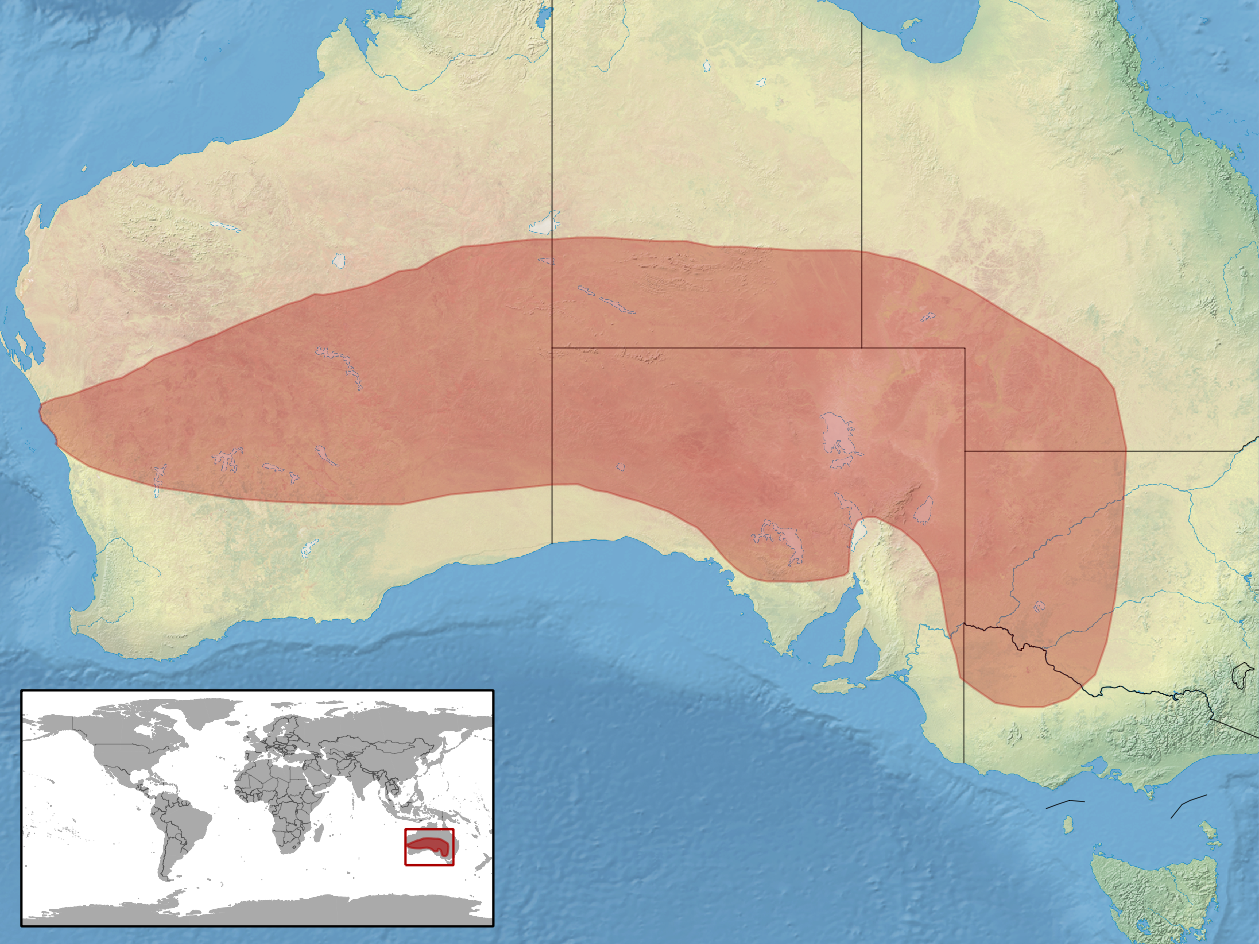 geographic distribution of Liopholis inornata